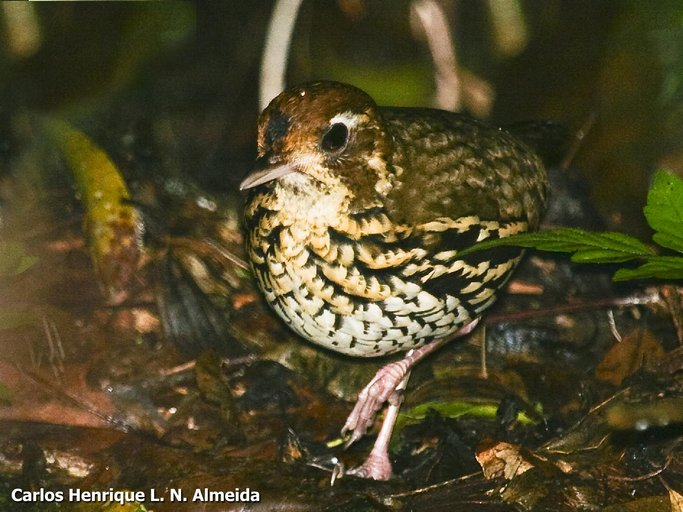 Chamaeza campanisona at Intervales State Park (Ribeirão Grande, São Paulo, Brazil)